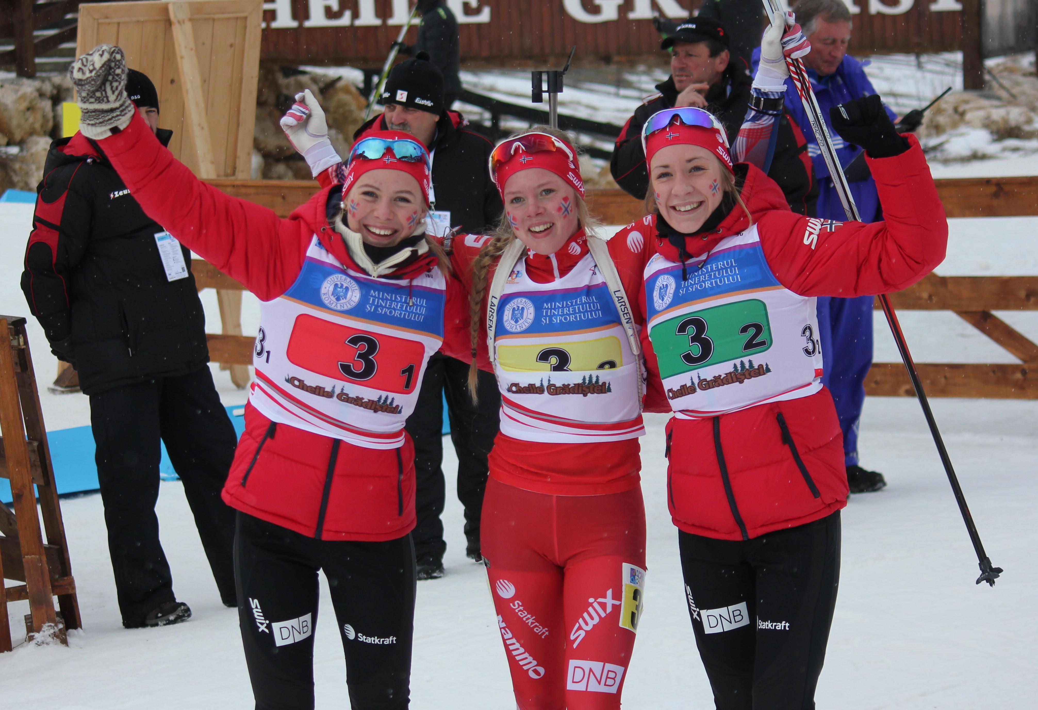 Karoline Erdal, Emilie Kalkenberg and Kristina Skjevdal, winning bronze in the 3 × 6 km Relay (youth) in the Biathlon Junior World Championships 2016.